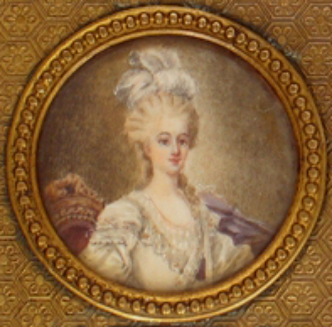 Portrait of Thérèse-Lucy de Dillon.